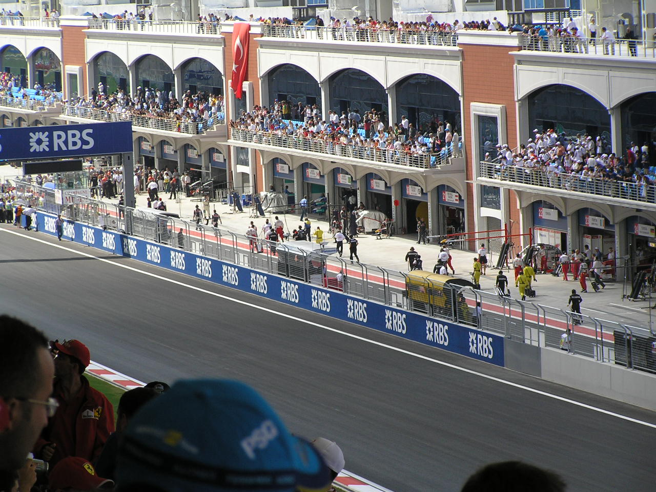 Istanbul Park pit line